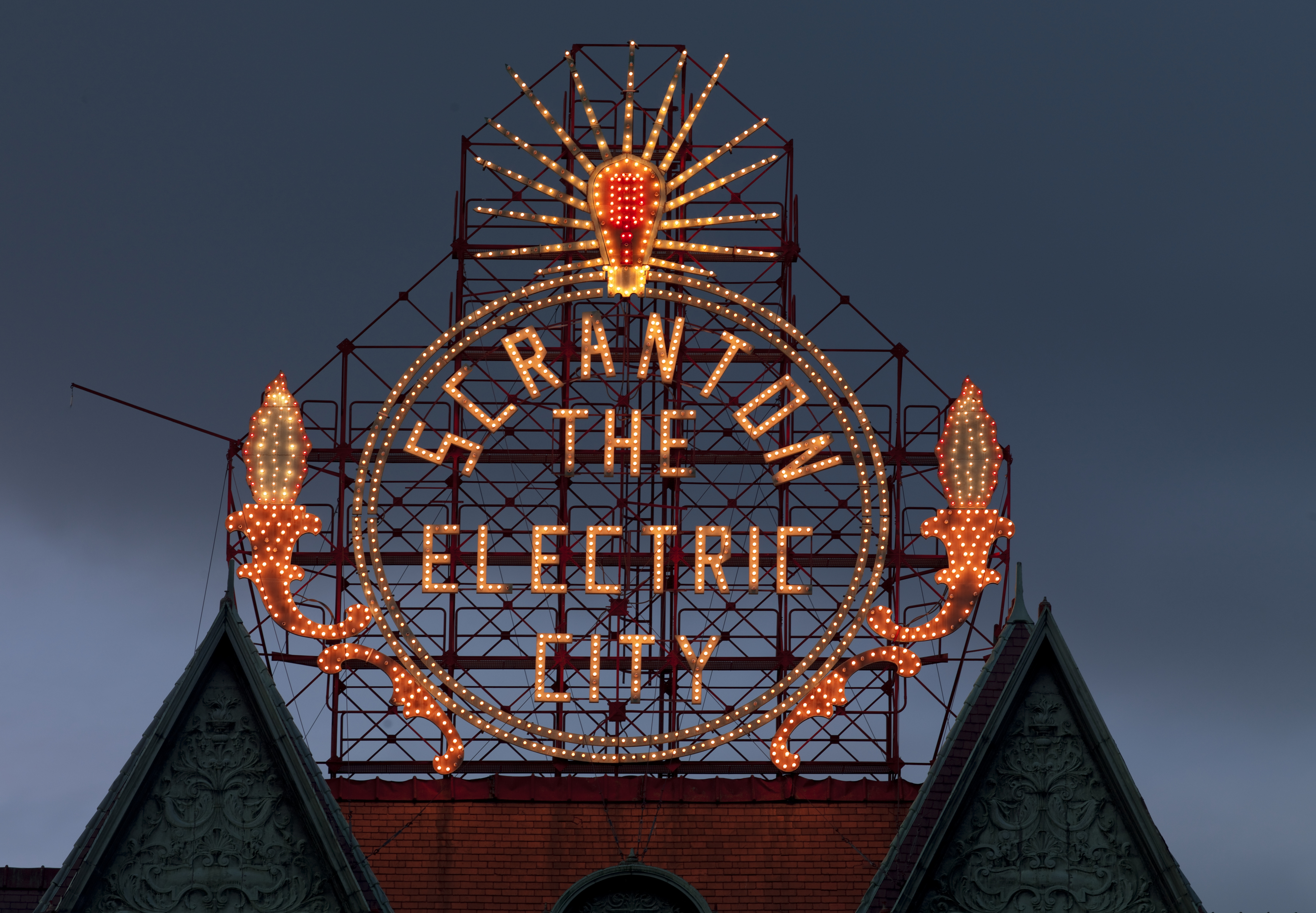 The sign "Electric city" in Scranton, Pennsylvania, photographed by Carol M. Highsmith, who has donated her collection to the Library of Congress and made it public domain.